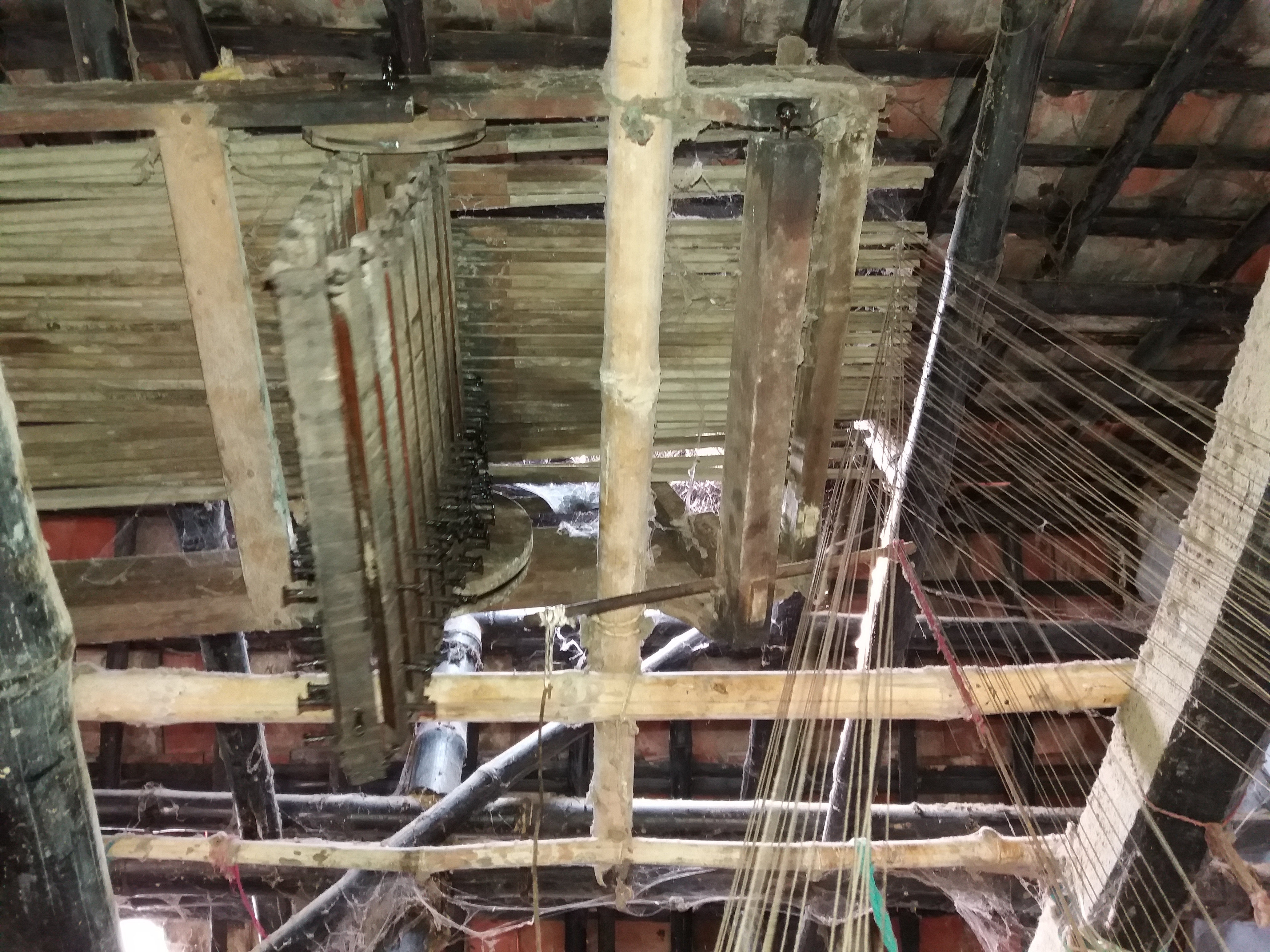 Hand loom in Hooghly District, West Bengal